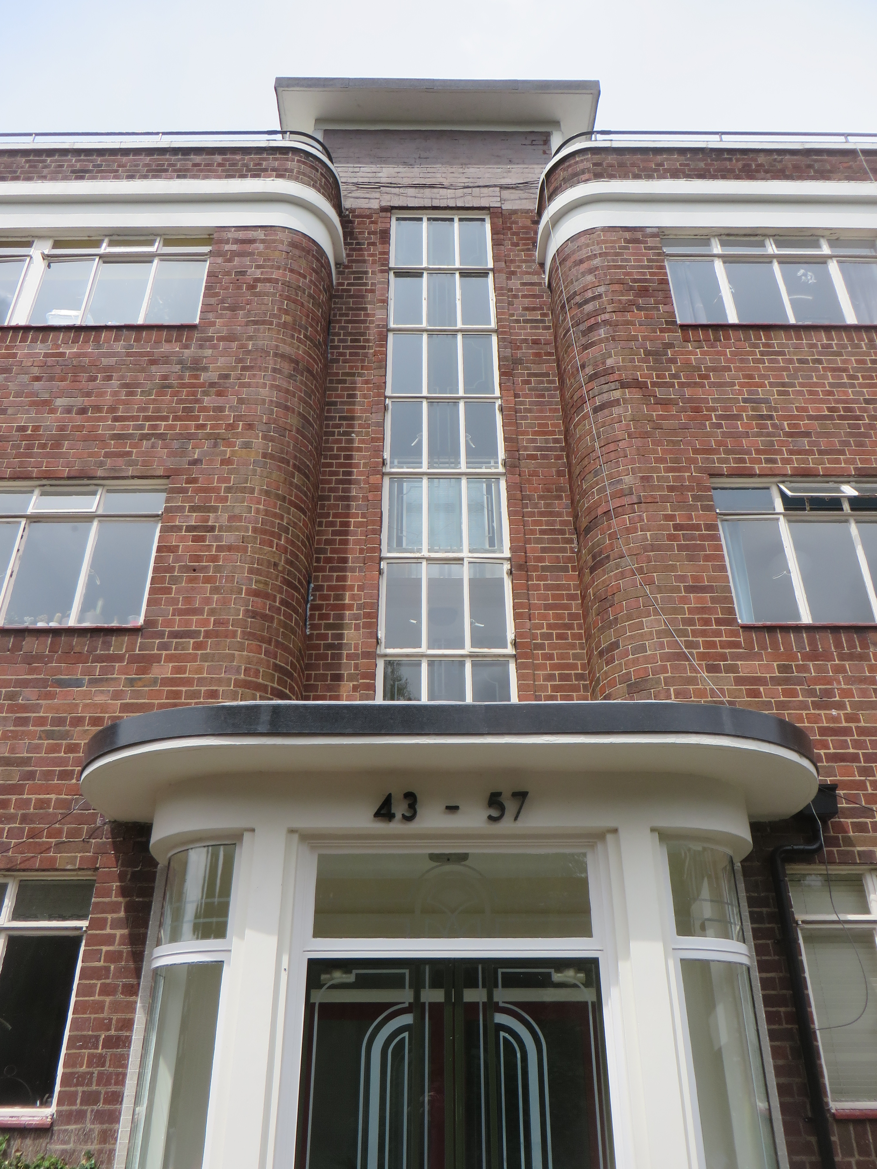 Entrance door at Appleby Lodge, Wilmslowe Road, Rushholme, Manchester, England.